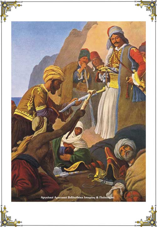 "Andreas Londos destroys 3000 ennemies near Vostitsa through plague" (february-march 1823) Ο Λόντος εξολοθρεύει περί την Βοστίτσαν δια λοιμού 3000 εχθρών. Peter Von Hess.